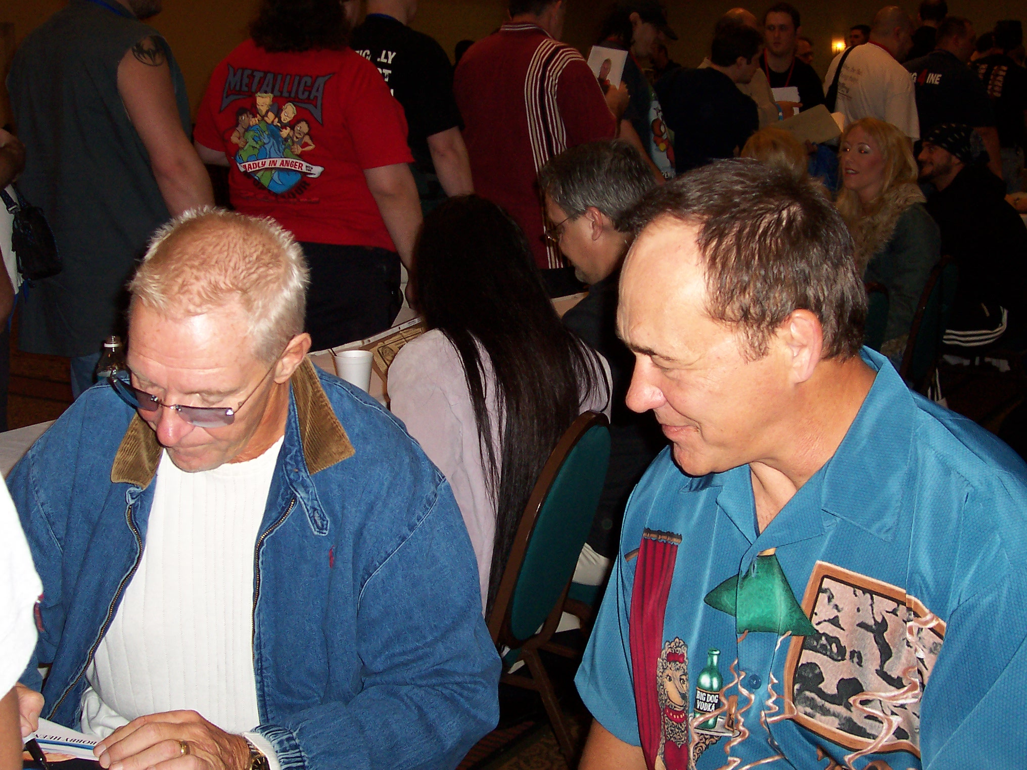 Bobby Heenan and Larry Zbyszko (real name Larry Whistler)